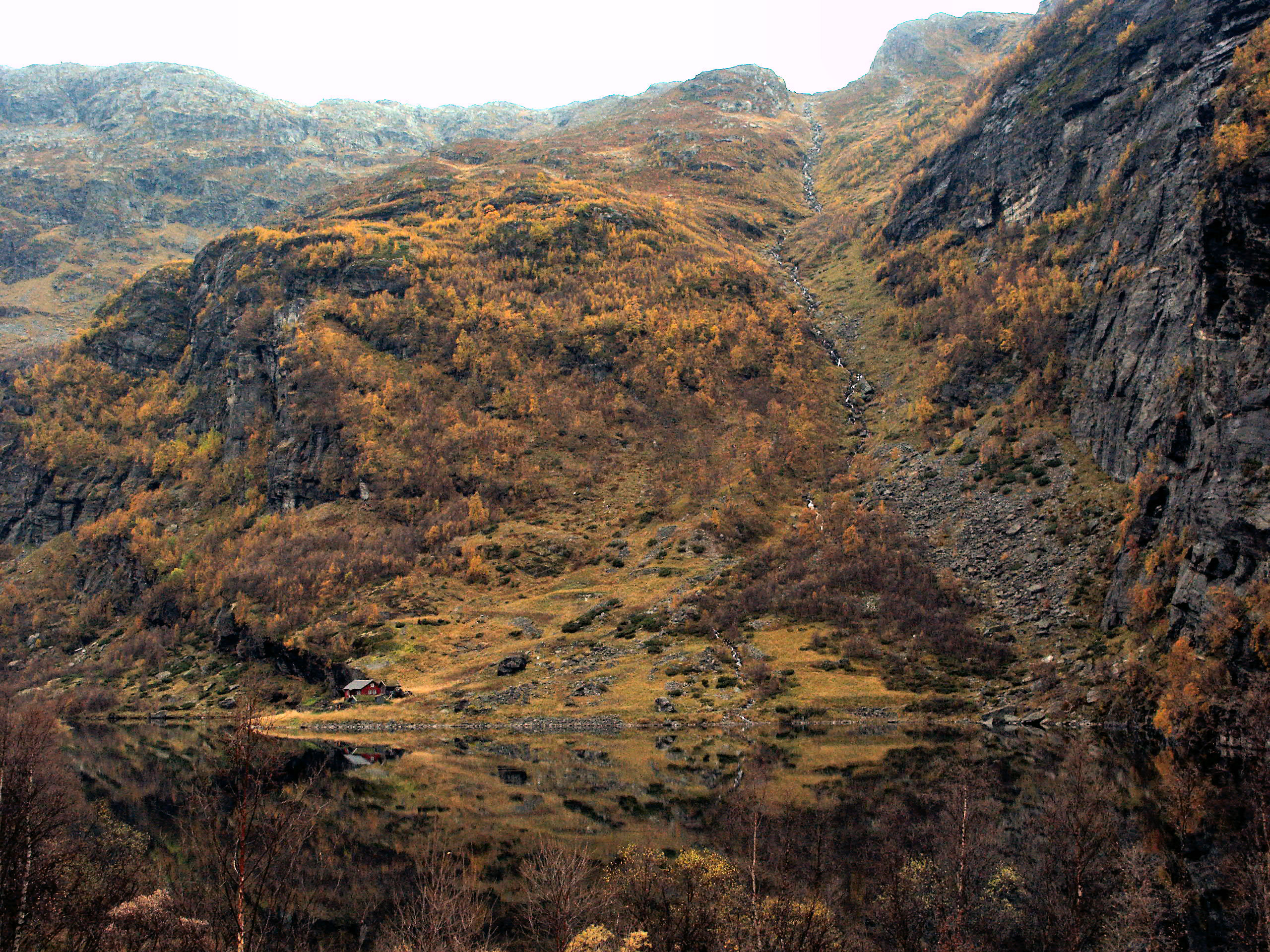 Nesbø farm, Nesbø, Aurlandsdalen, Aurland muncipality, Sogn og Fjordane county, Norway.